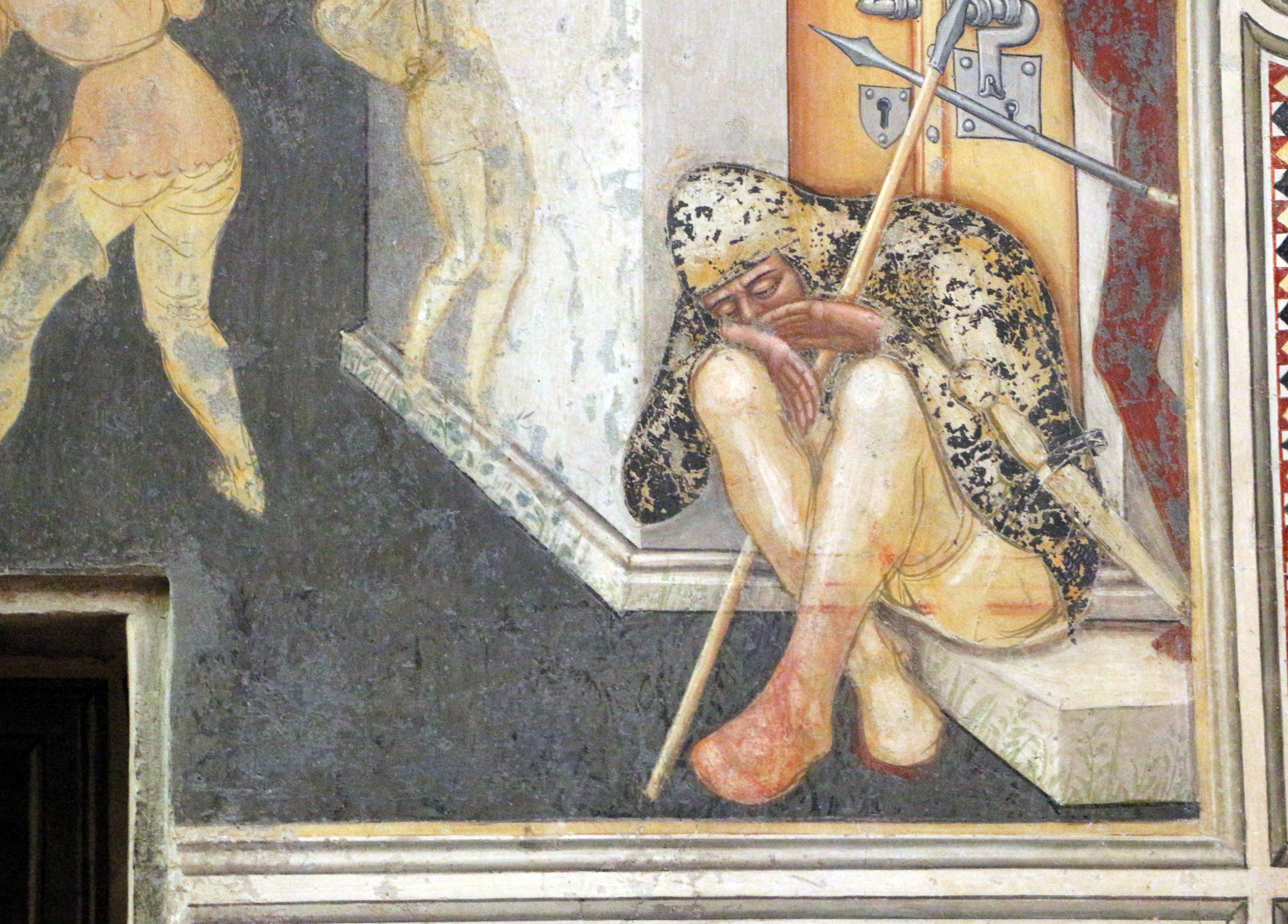 Stories of Saint Augustine by Ottaviano Nelli